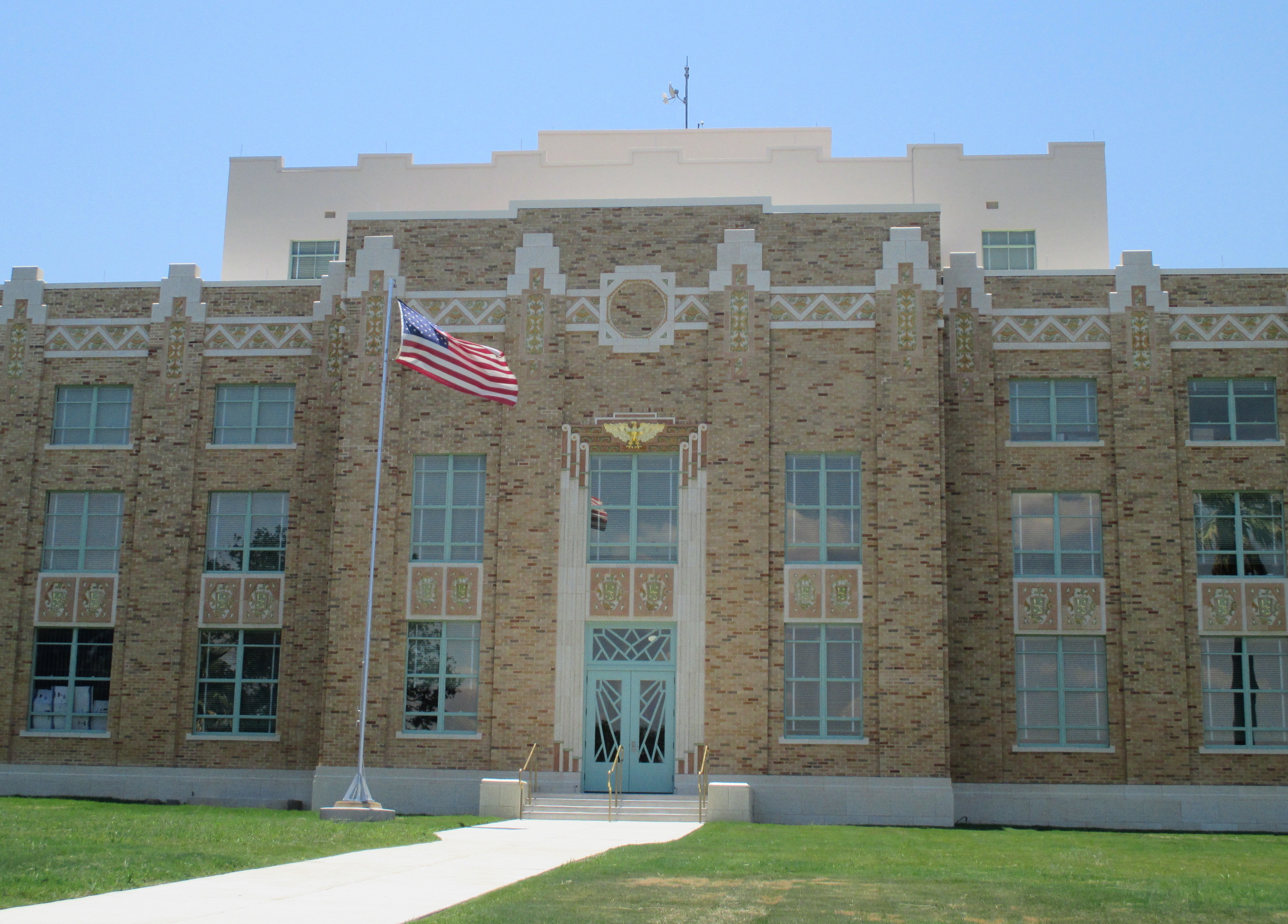 I took photo of La Salle County Courthouse in Cotulla with Canon camera; structure has undergone several years of reconstruction.